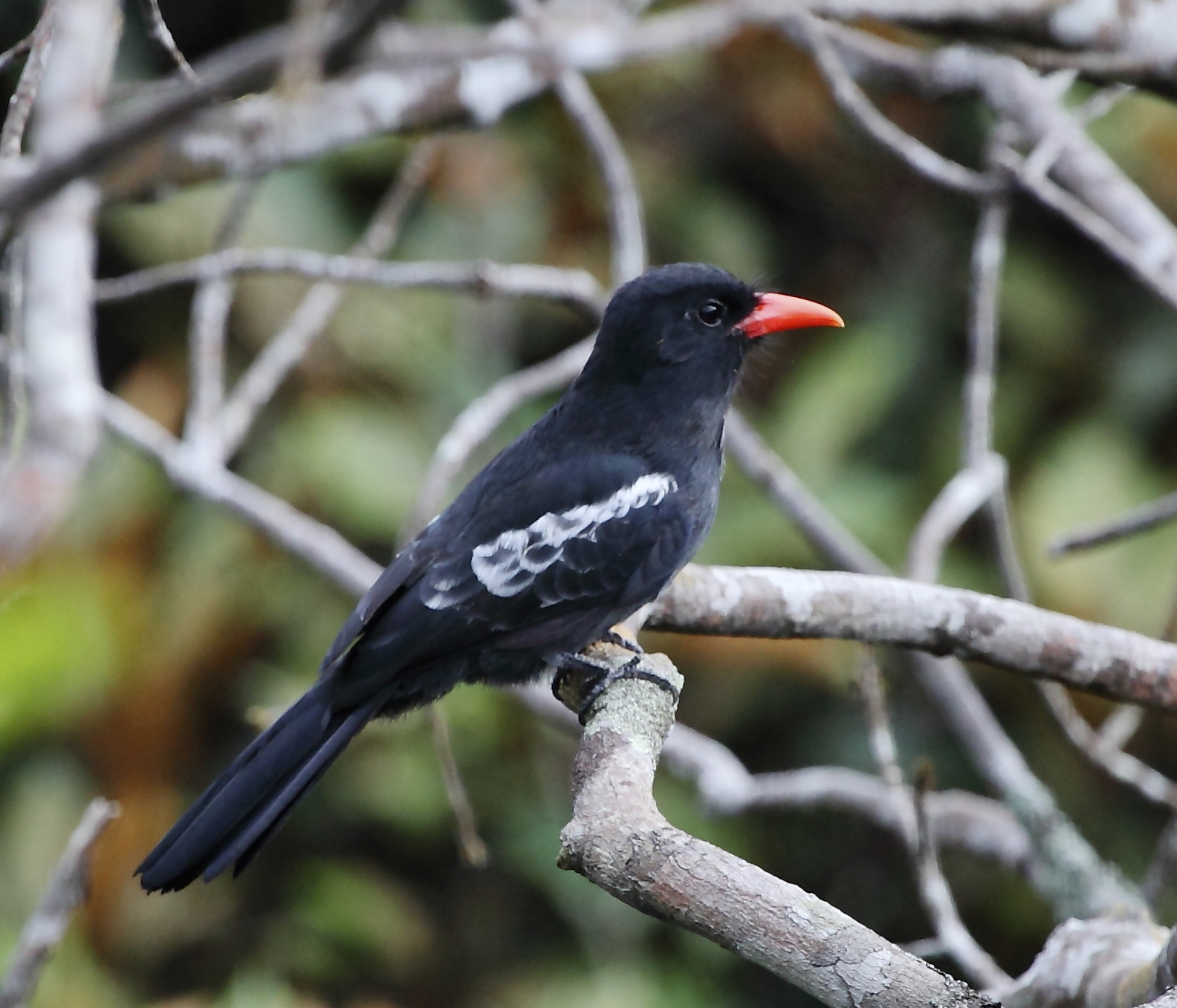 Black nunbird at Manaus - AM - Brazil